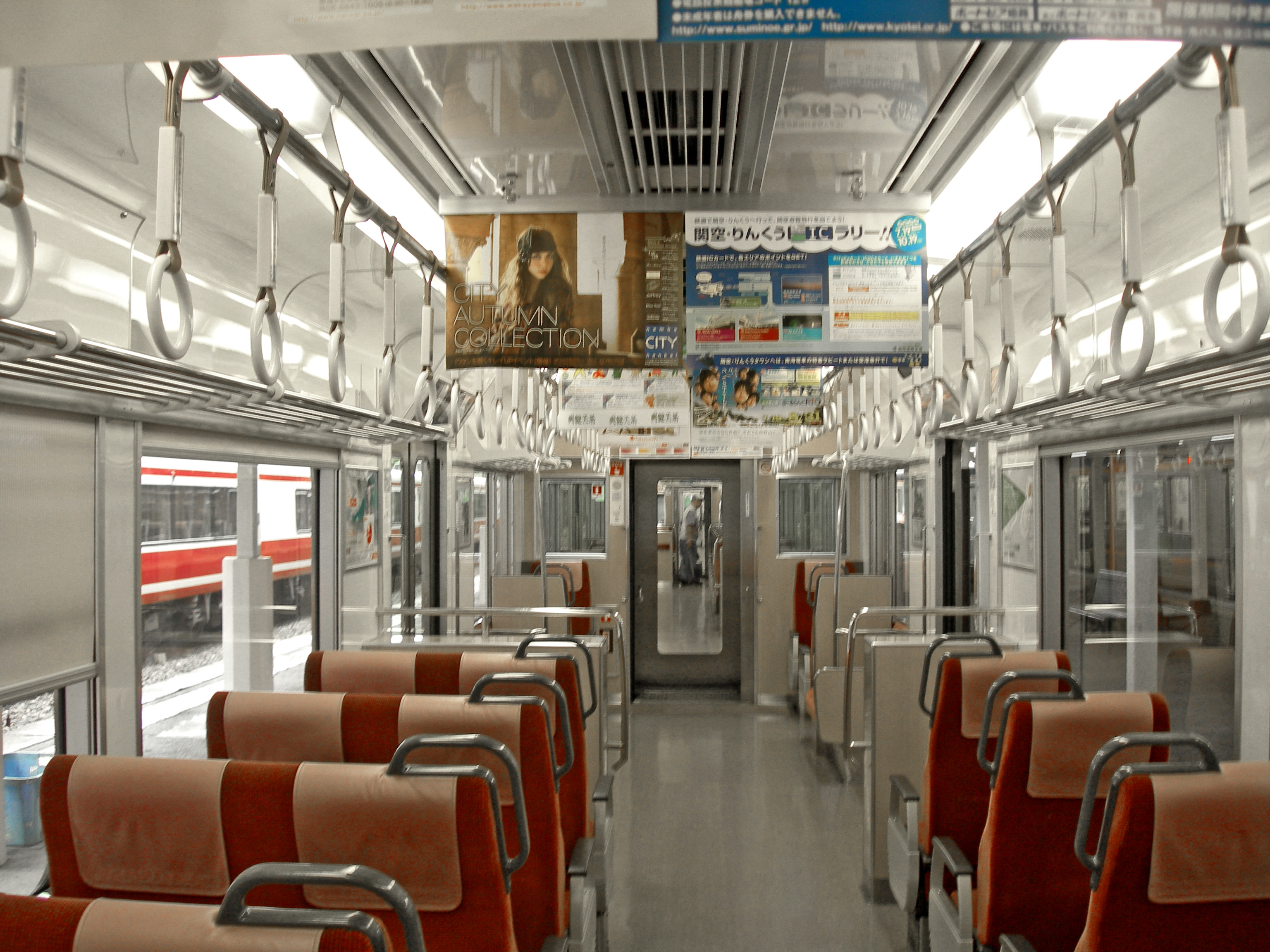 Interior of a Nankai 2300 series EMU